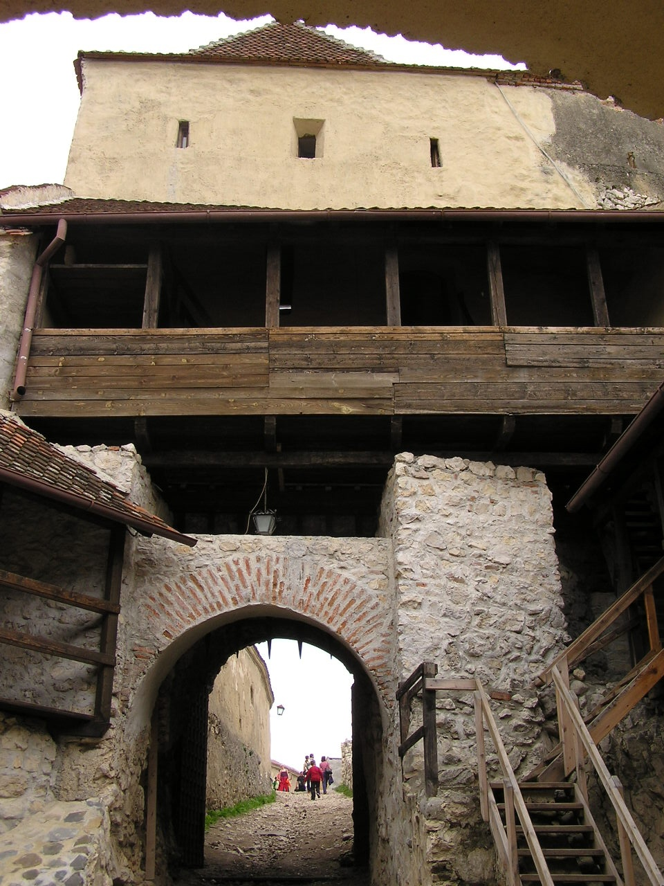 Gate entrance to the fortress Râşnov, Romania.